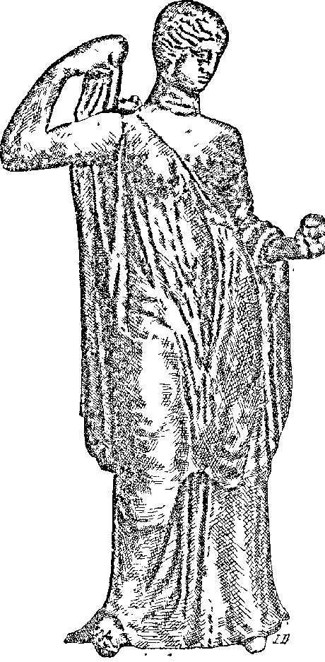 Roman copy of Venus Genetrix (= Aphrodite); attributed to Callimachus (400 BC) or Alcamenes (400 BC); drawing based on "Fréjus" Aphrodite/Venus in the Louvre Museum.